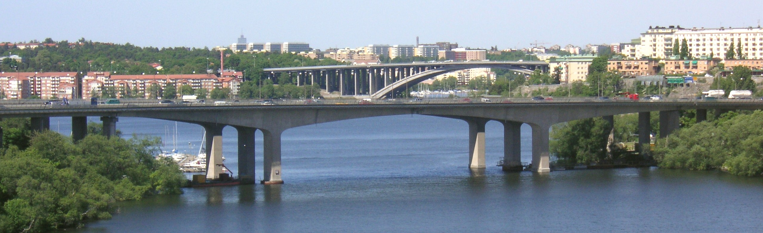 Essingebron (Essinge bridge) in Stockholm